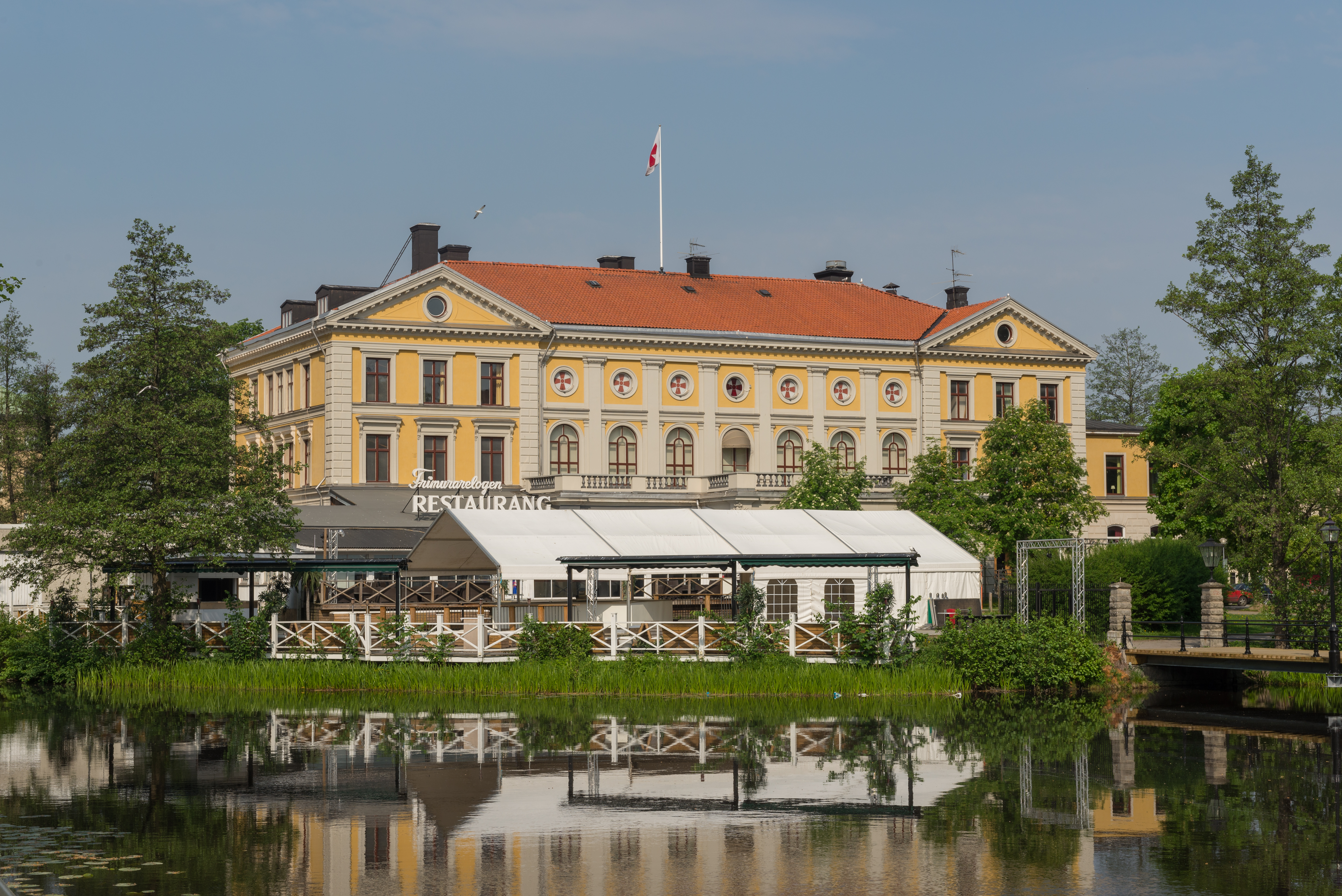 The masonic building in Örebro Sweden.